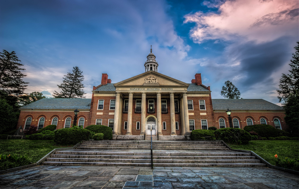 Municipal Building, Maplewood, New Jersey